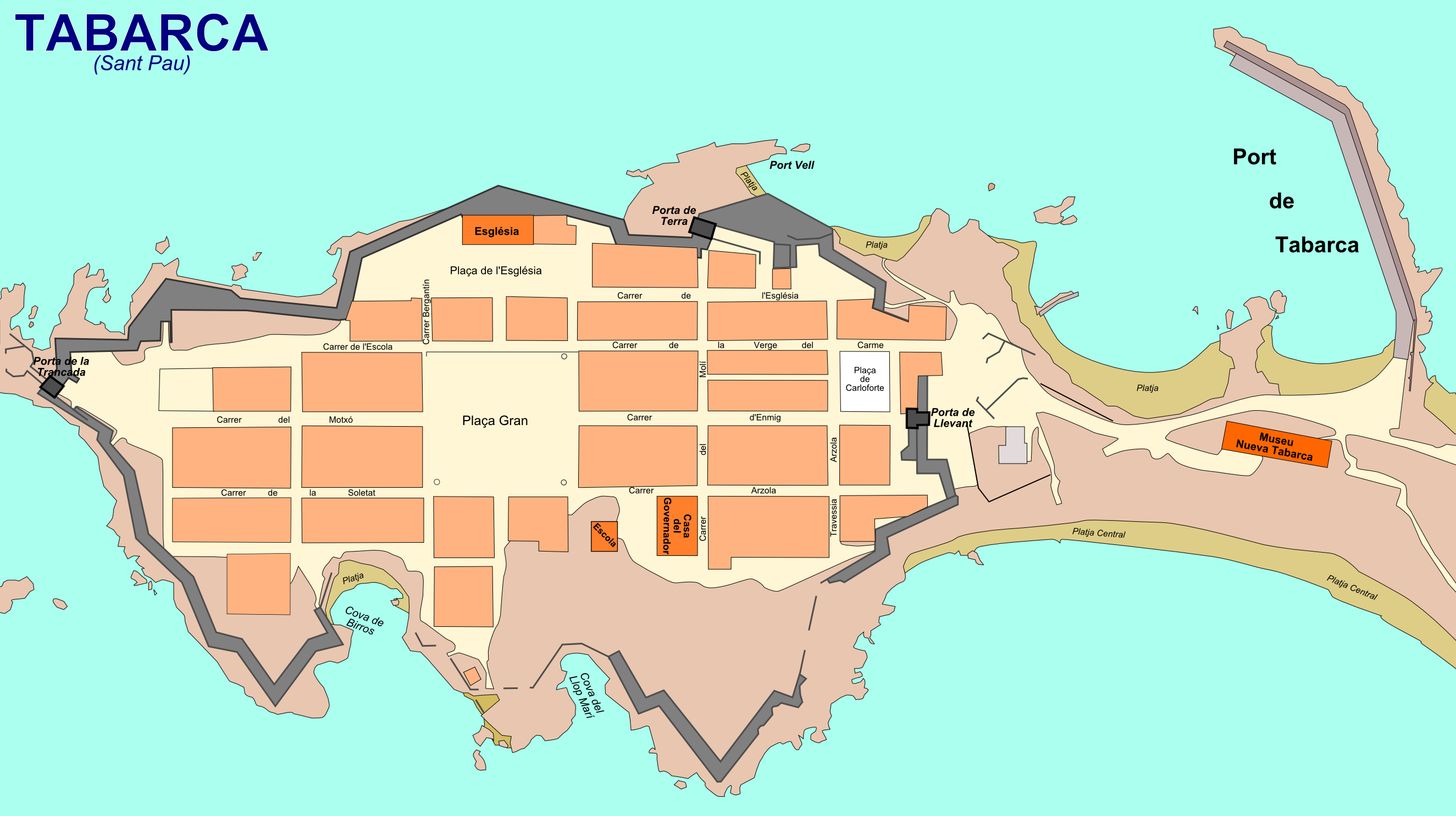 Street plan of the town Nova Tabarca, also known as Sant Pau.